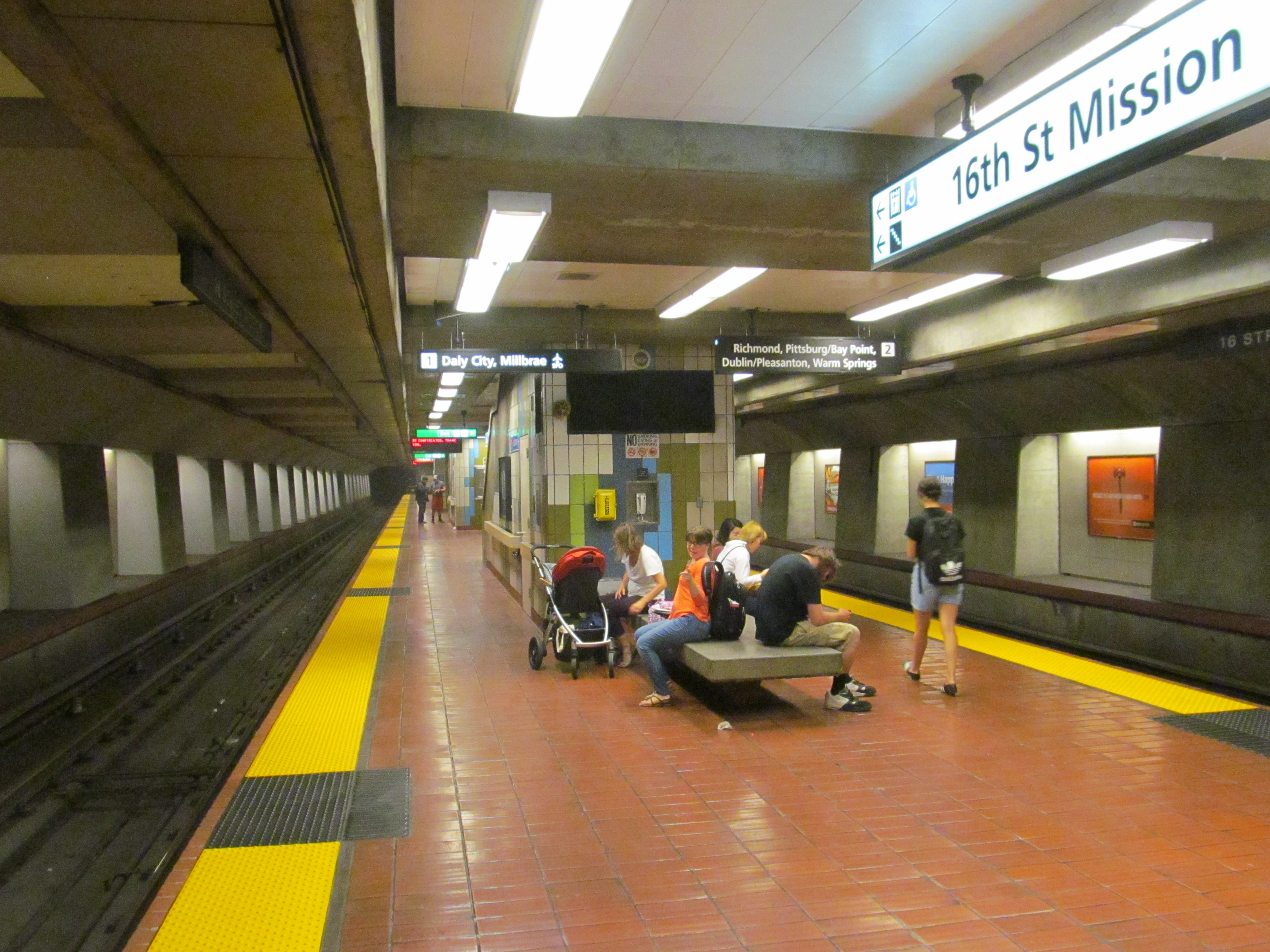 Platform at 16th Street Mission station in September 2017